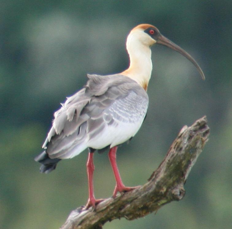 Curicaca / Buff-necked Ibis ( Theristicus caudatus )